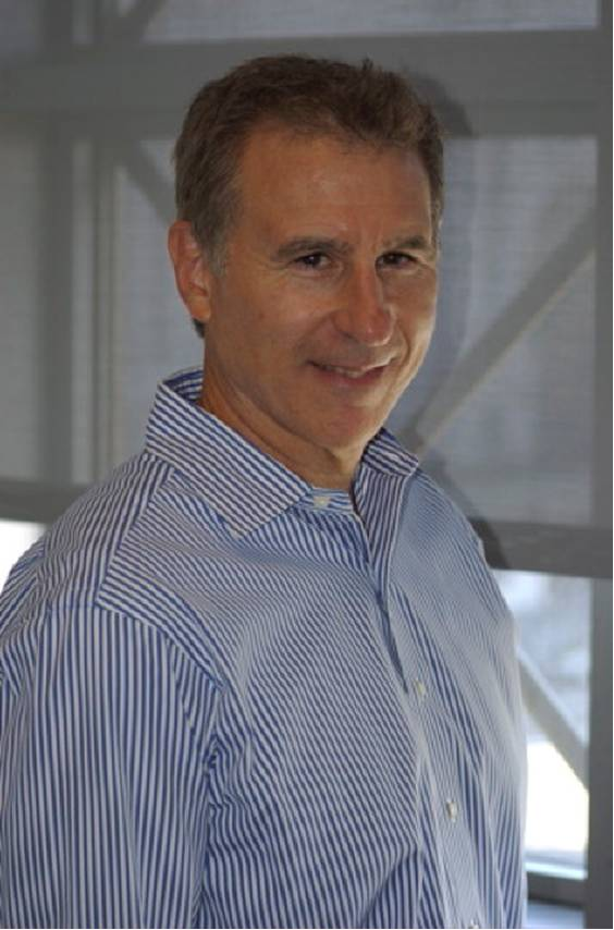 Author Kent Harrington